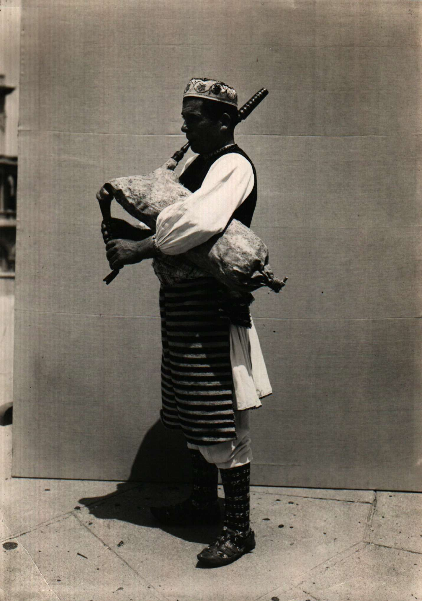 Macedonia